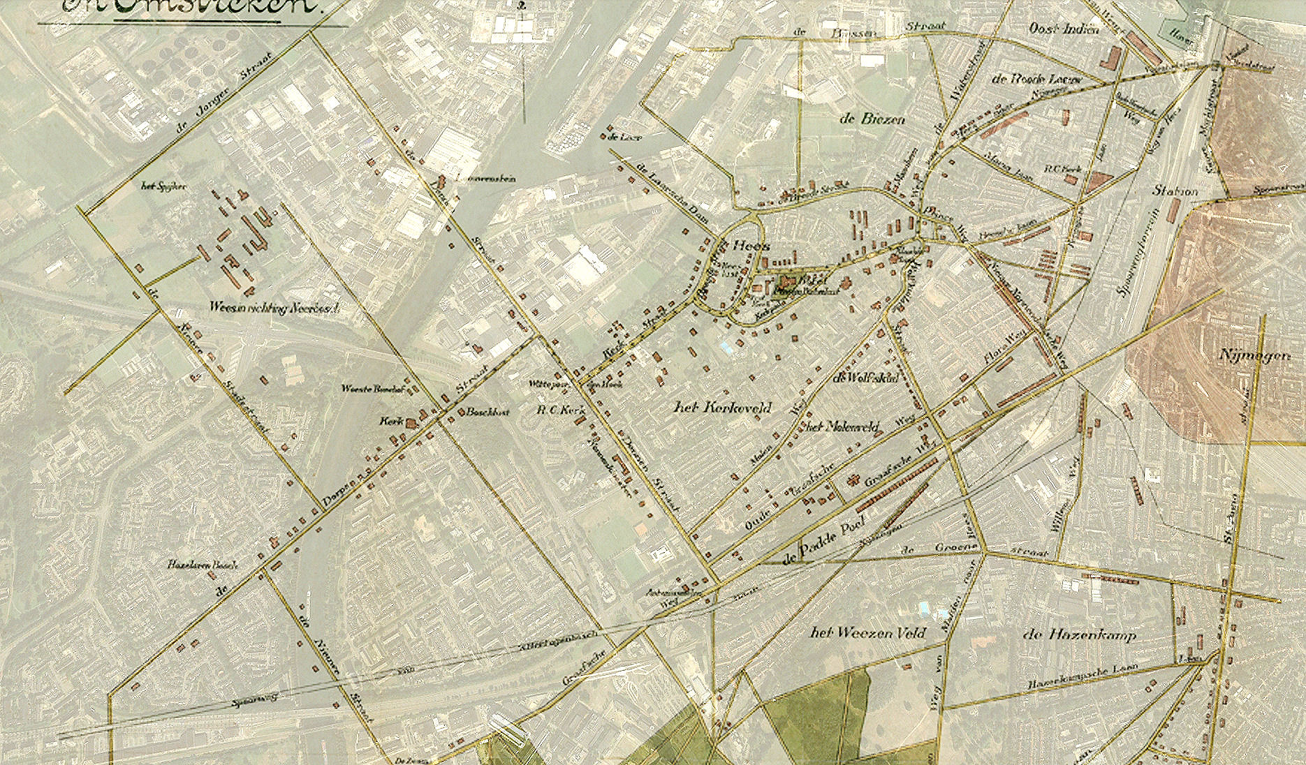 Nijmegen map Hees projection situation 1906 and 2016